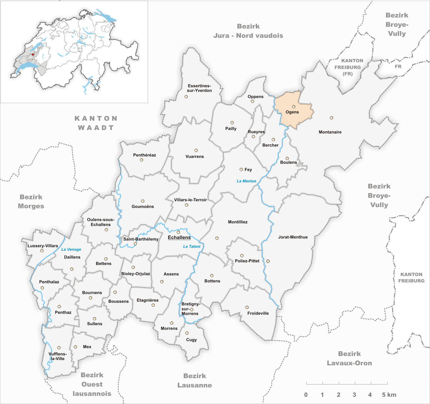 Municipality Ogens